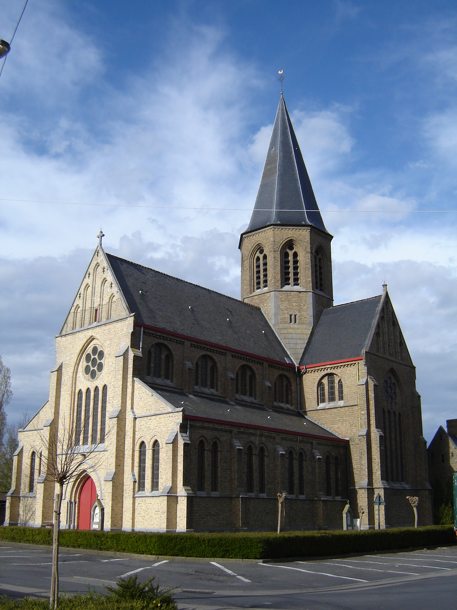 Church of the Nativity of Mary in Hollebeke. Hollebeke, Ieper, West Flanders, Belgium